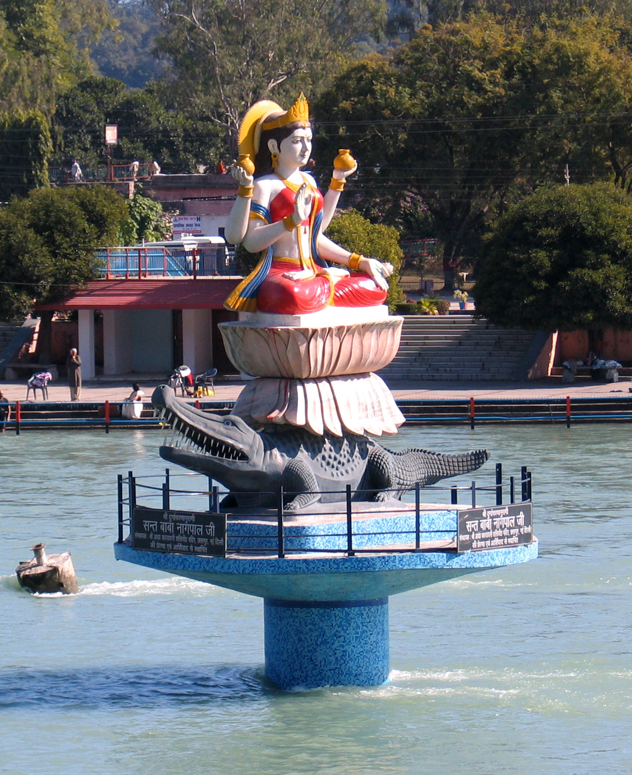 Statue of Ganga goddess in Ganges river, Haridwar, Uttarakhand, India